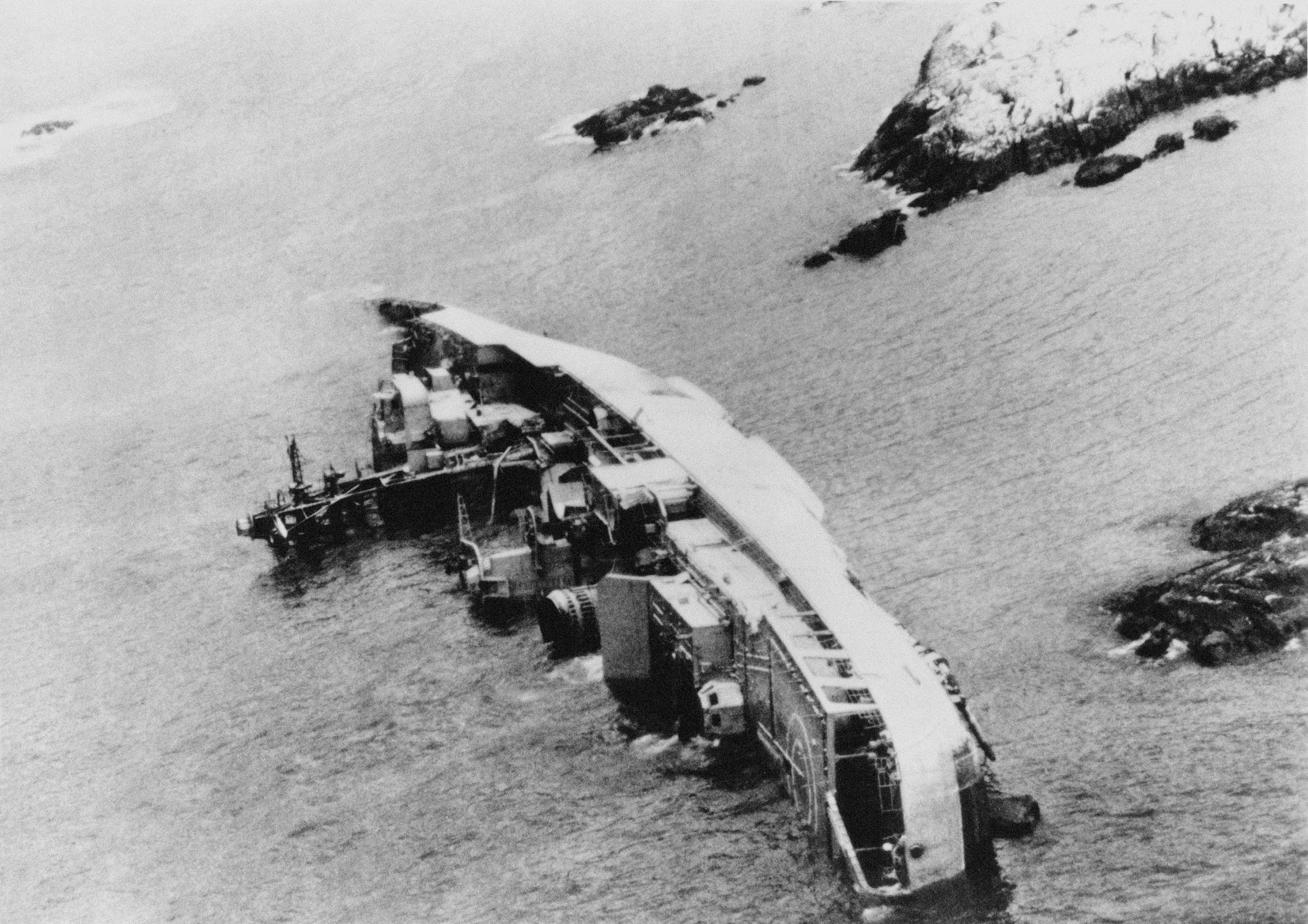 A stern view of the Soviet project 57-A large ASW ship (Kanin class guided missile destroyer - by NATO) Boykiy heeled over on its port side after running aground in Norweigian waters.